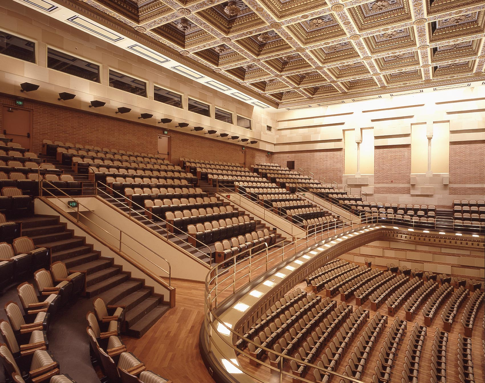 Taken within the auditorium of Royce Hall after Completion of Seismic Renovation.